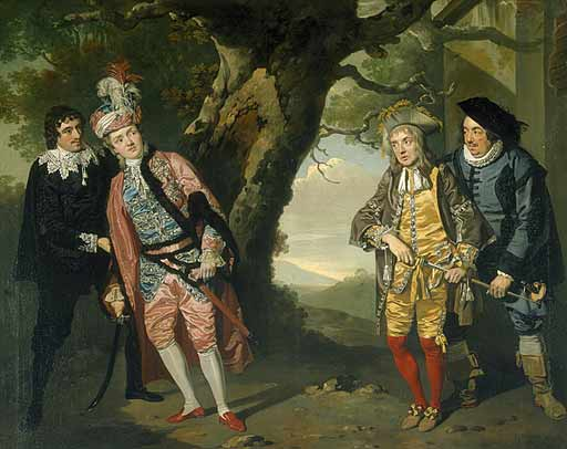 Scene from "Twelfth Night," Act III IV, where Fabian (far left) encourages Viola/Cesario (second left) to fight Sir Andrew Aguecheek (second right), encouraged by Sir Toby Belch (far right), because Viola is accused of wooing Olivia, whereas Andrew wishes to woo her instead.